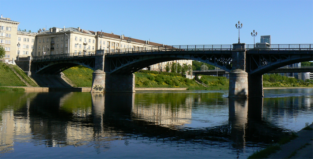 Žvėrynas bridge in Vilnius.